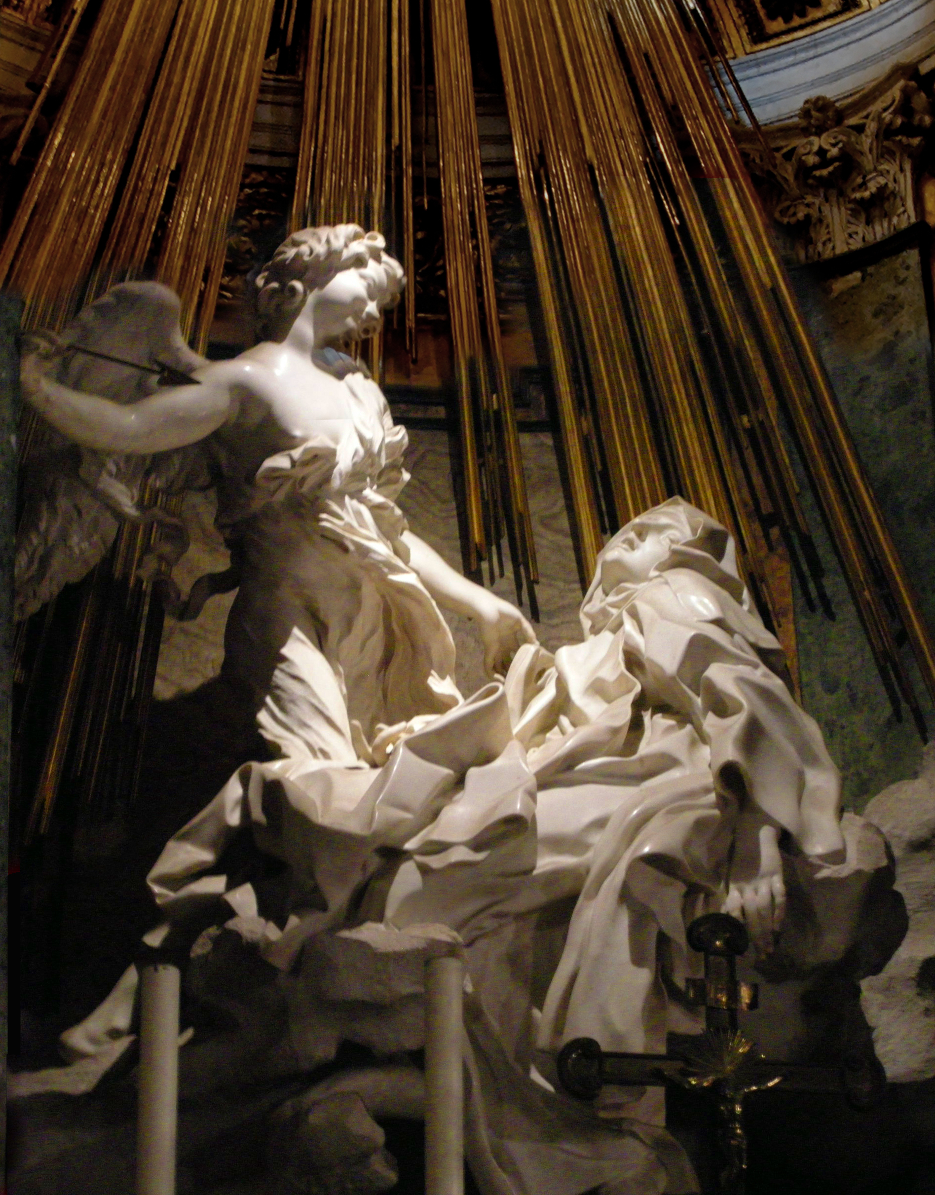 Extasis of St. Theresa